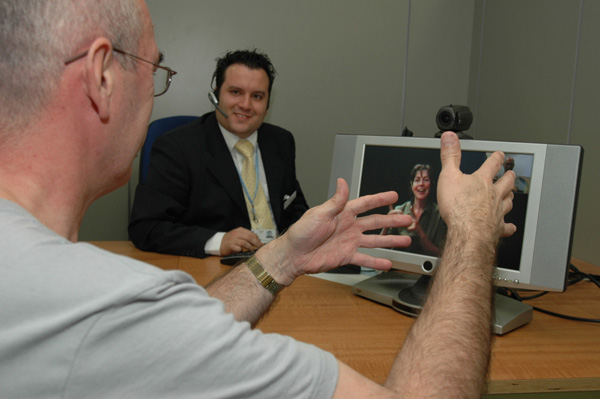 A Video Relay Service session, where a Deaf, Hard-Of-Hearing or Speech-Impaired individual can communicate with a hearing person via a Video Interpreter (a Sign Language interpreter), using a videophone or similar video telecommunication unit. The hearing person with whom the Video Interpreter is also communicating can not be seen in the photo.